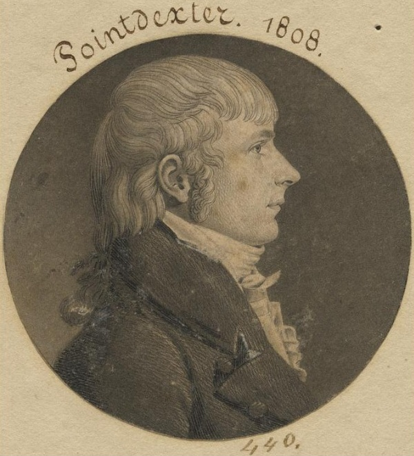 George Poindexter, Mississippi Governor and U.S. Senator, 1808